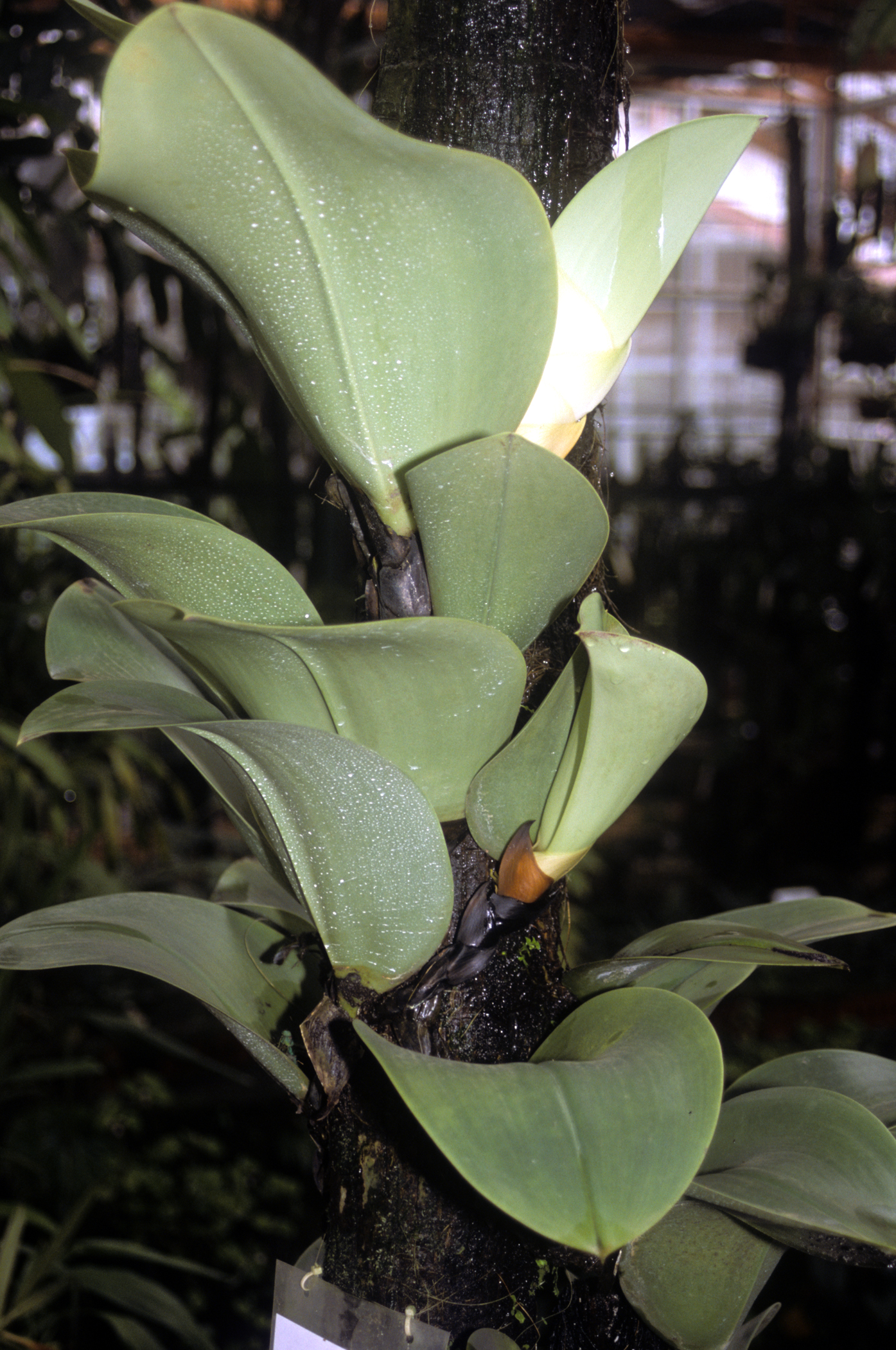 Bulbophyllum beccarii, Rumba Ilmu Bot Gard. Kuala Lampur, Malaysia. Leaves of this orchid trap falling litter, from which the orchid derives nourishment.